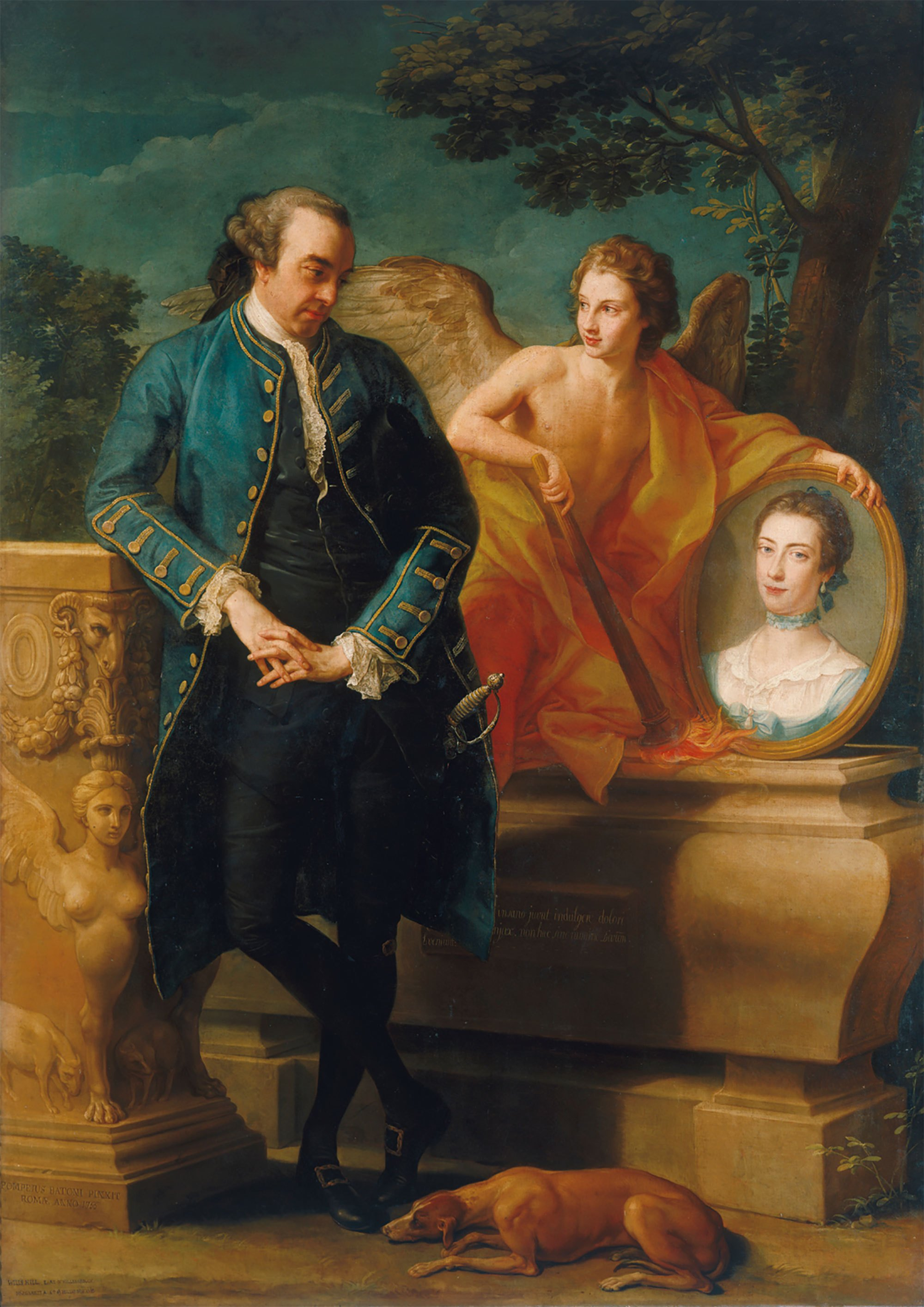 Portrait of Wills Hill, The Earl of Hillsborough, later 1st Marquess of Downshire, (1718-93)